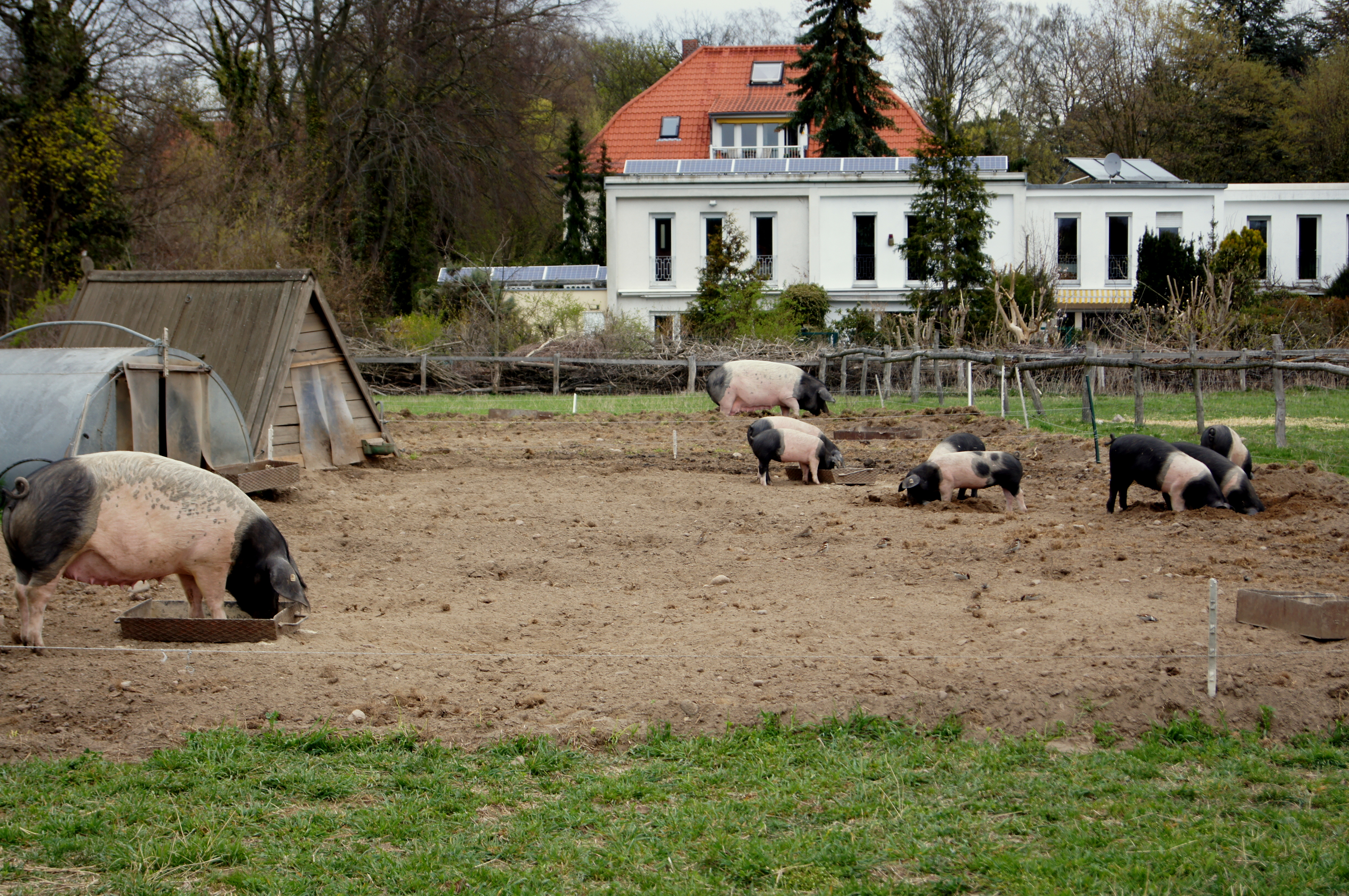 Open air museum Estate Dahlem in Berlin, Germany. Pigs